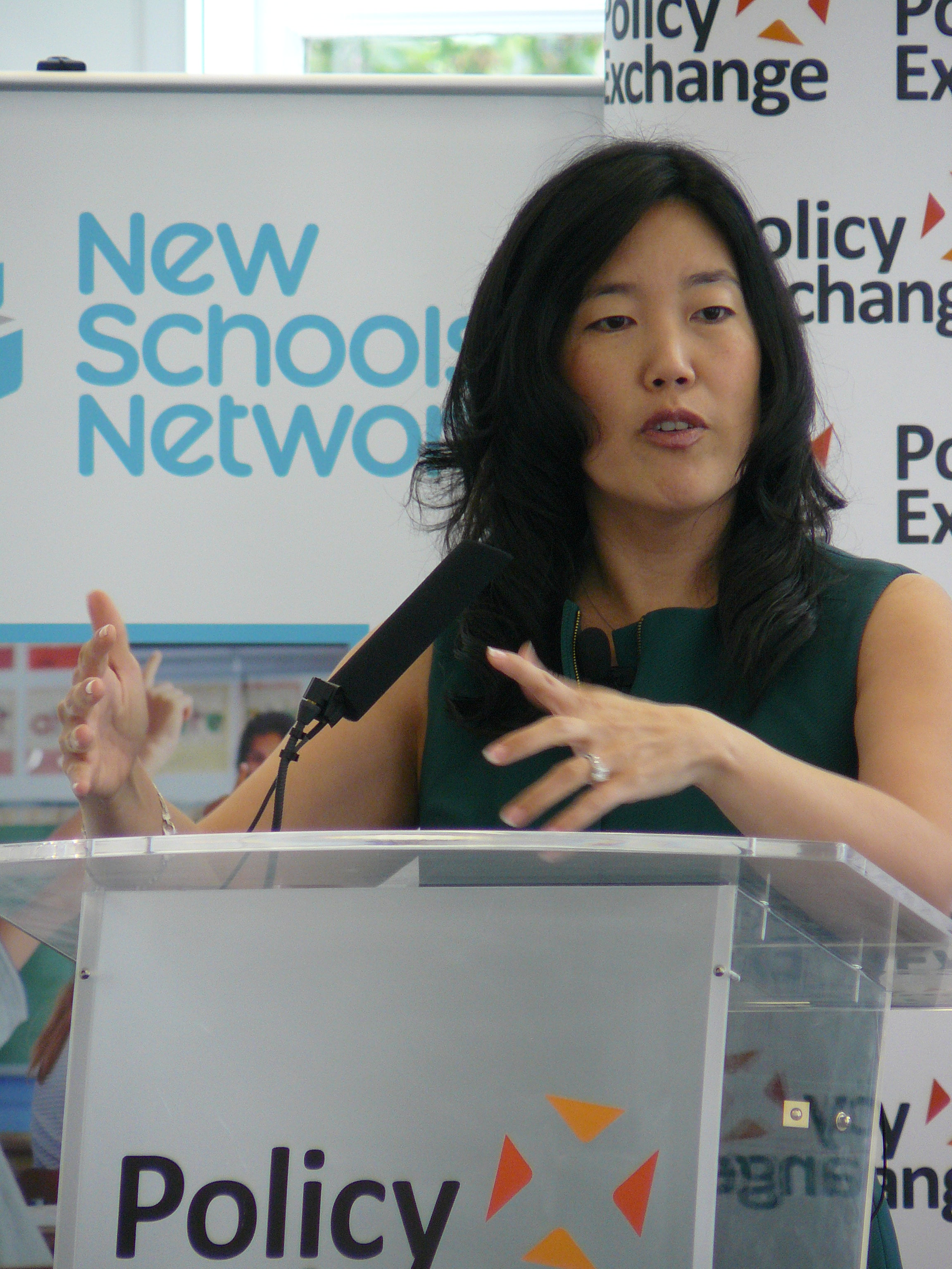 Michelle Rhee, in 2012.